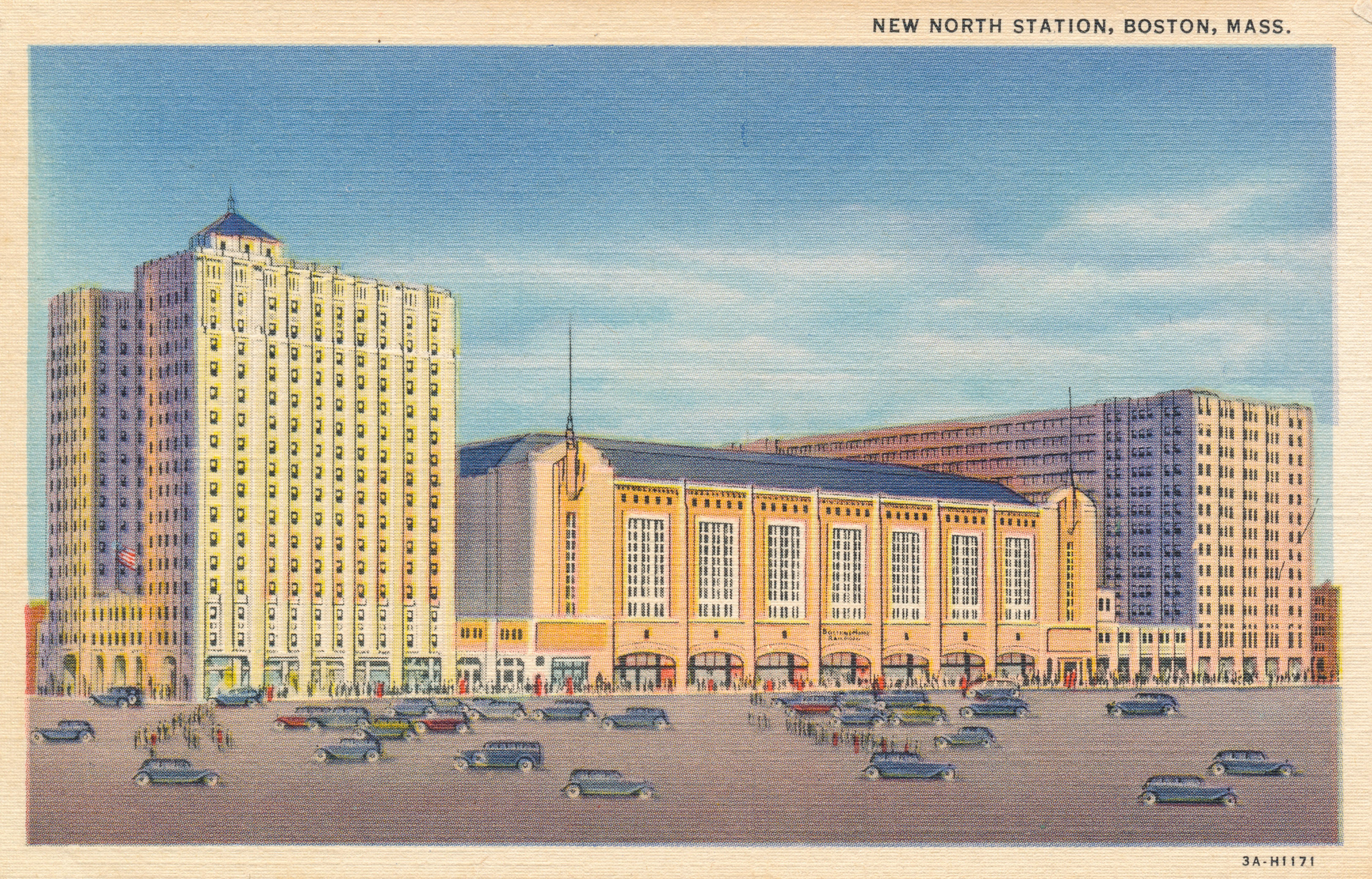 An early postcard of the 1928-built North Station in Boston, Massachusetts. The postcard does not accurately reflect the view at the time; Causeway Street in front of the station was rather narrow, and the elevated rapid transit lines in front of the station are not shown.